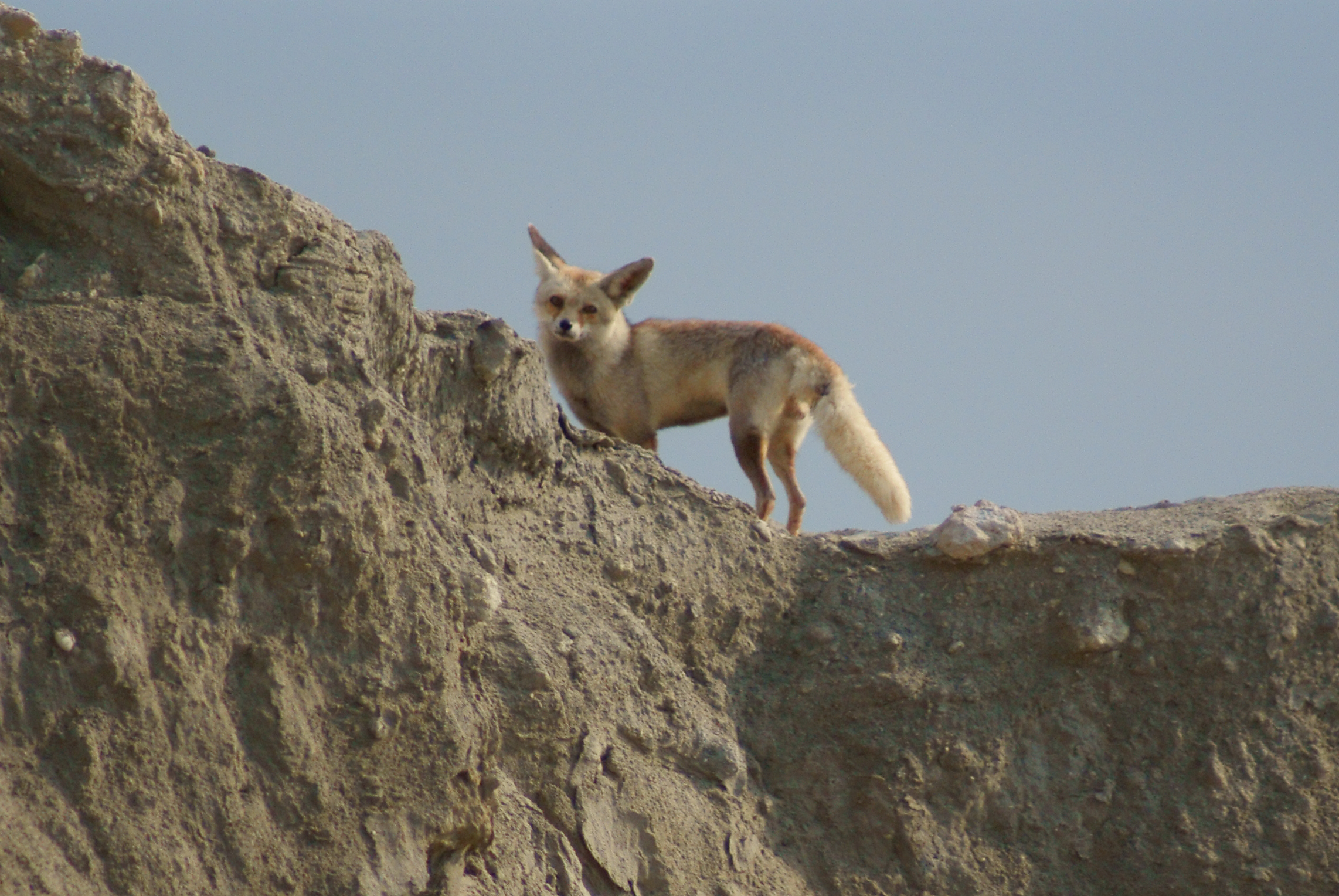 Arabian Red Fox on Al Reem Island in Abu Dhabi.